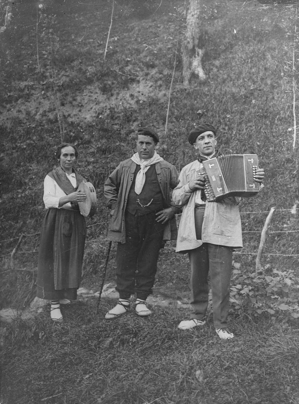 Trikitixa